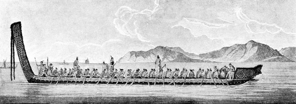 This is an image of a plate from Captain Cooks's Journal, First Voyage, entitled "War Canoe of New Zealand"